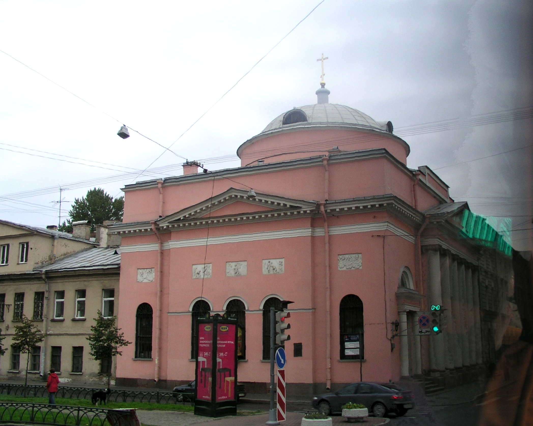 Our Lady’s Church of Joy for All Who Sorrow